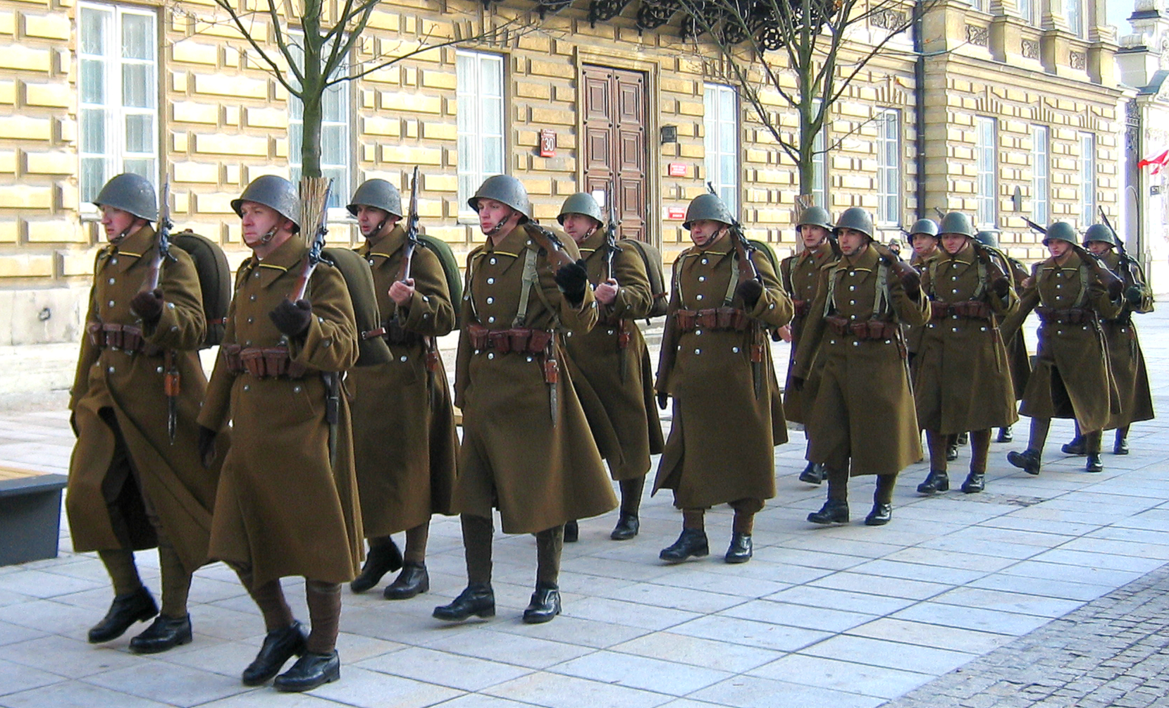 Polish infantry from 1939 (renacting)